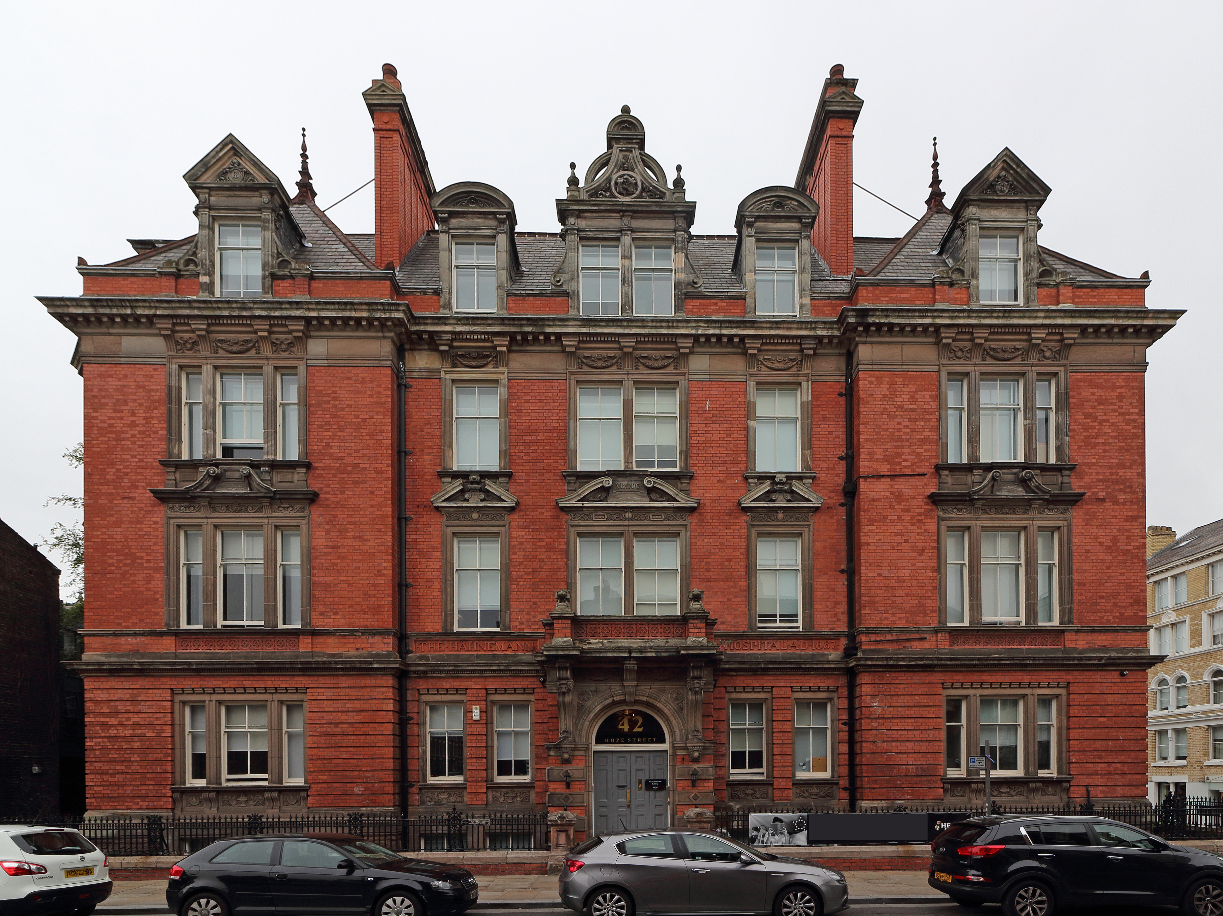 Front elevation on Hope Street.